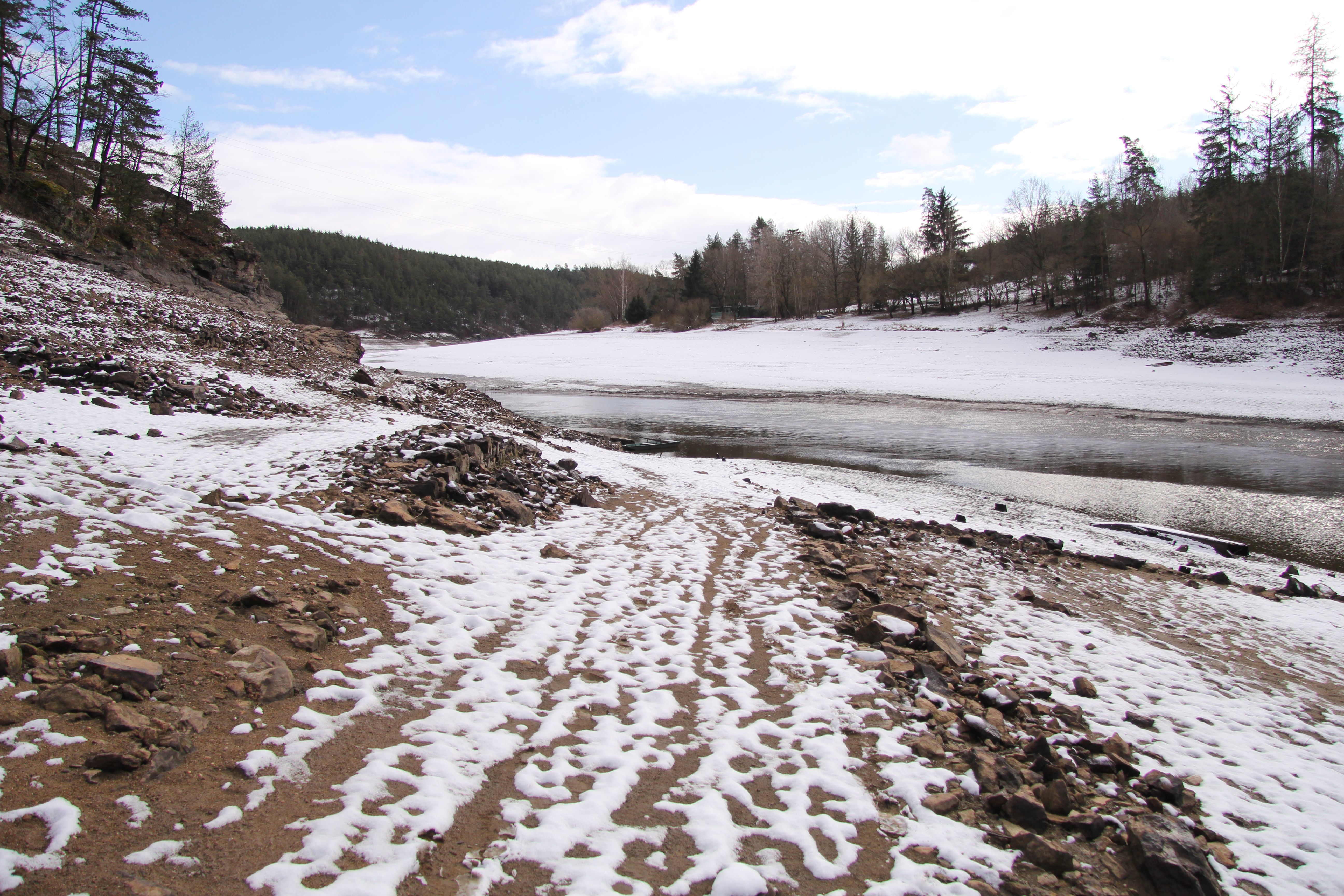 Former driveway in Upper Lipov